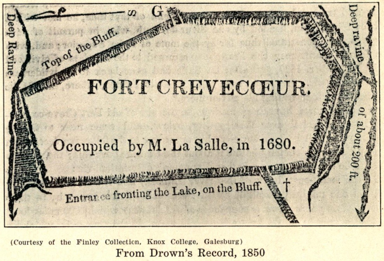 Illustration of Fort Crevecoeur from book, History of the Illinois river valley